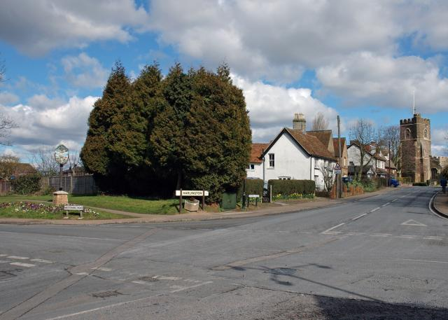 View northeast from the crossroads of Harlington, Bedfordshire, along Church Road toward St Mary's parish church (right)